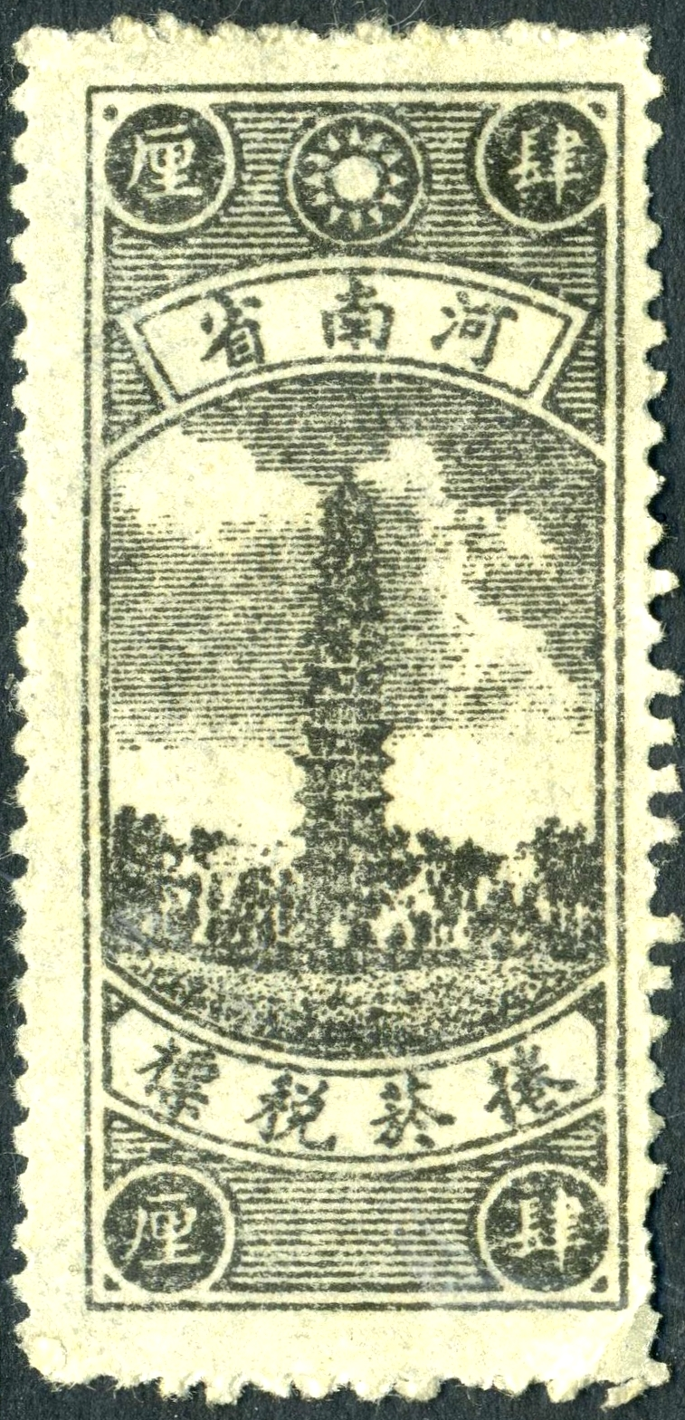 1925 Chinese cigarette tax revenue stamp.